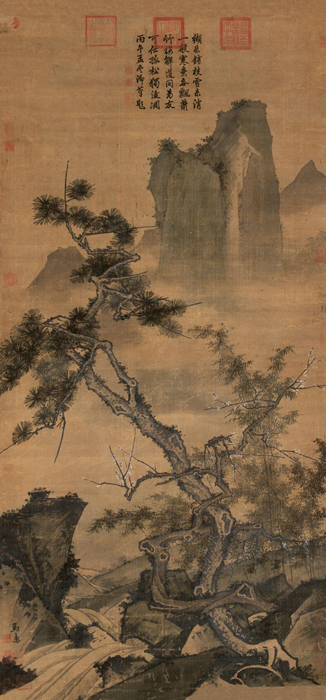 A scroll painting of the Three Friends of Winter by Ma Yuan (c. 1160–1225)